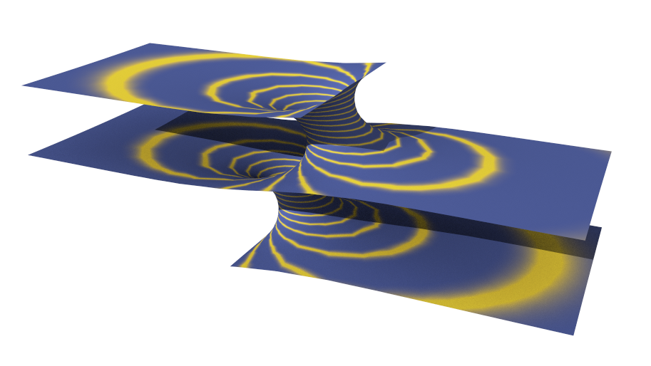 Three levels of Riemann's minimal surface, rendered with a texture to show that the intersection with horizontal planes is circular. The original surface mesh is from the The Scientific Graphics Project at MSRI.